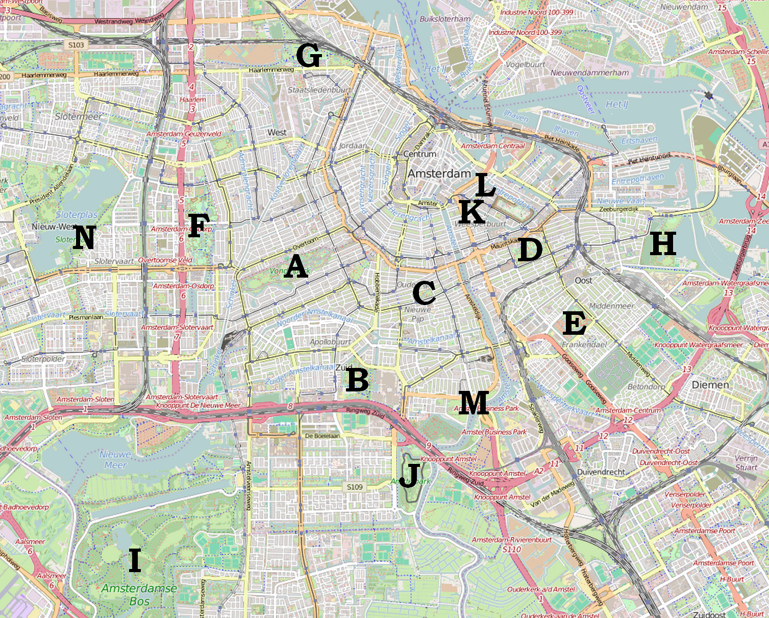 Amsterdam map indicating parks. The font used is Bookman Old Style for anyone who wants to add letters. A - Vondelpark B - Beatrixpark C - Sarphatipark D - Oosterpark E - Park Frankendael F - Rembrandtpark G - Westerparkk H - Flevopark I - Amsterdamse Bos J - Amstelpark K - Hortus Botanicus L - Wertheimerpark M - Martin Luther Kingpark N - Sloterpark